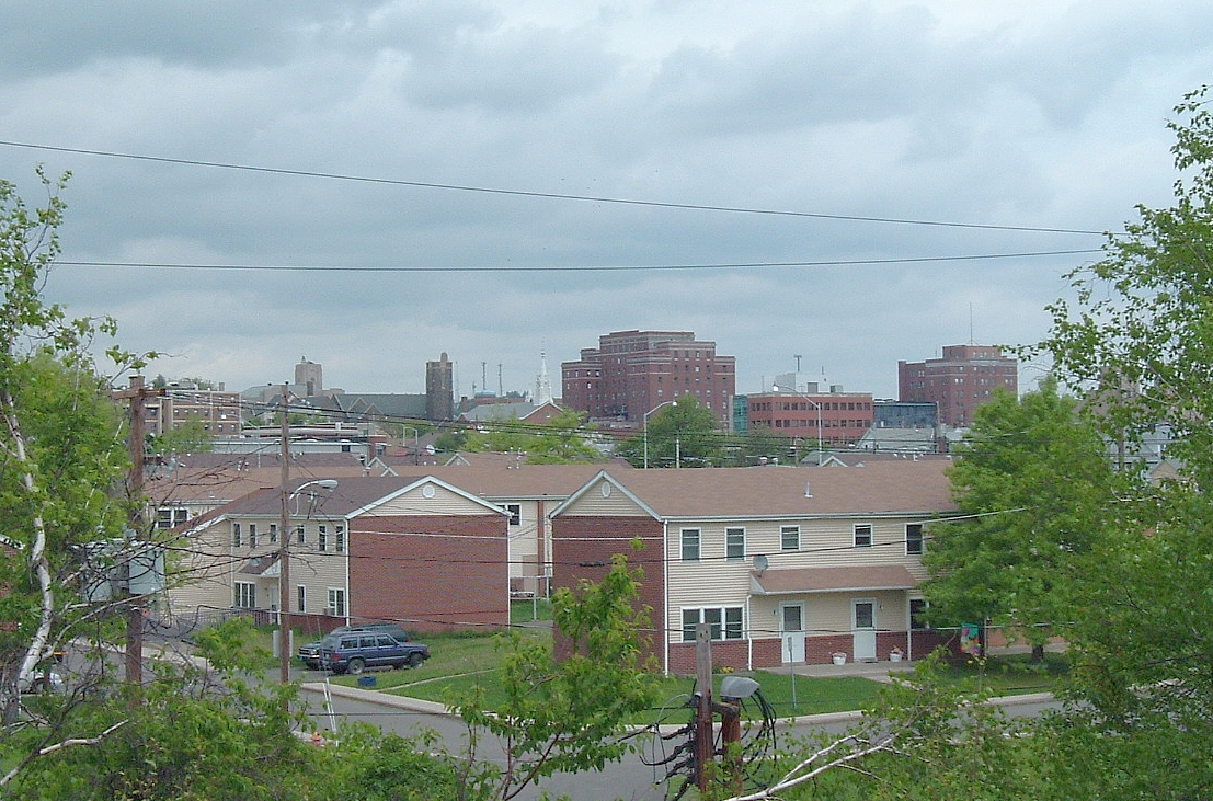 Downtown Hazleton, PA from the railroad tracks to the south